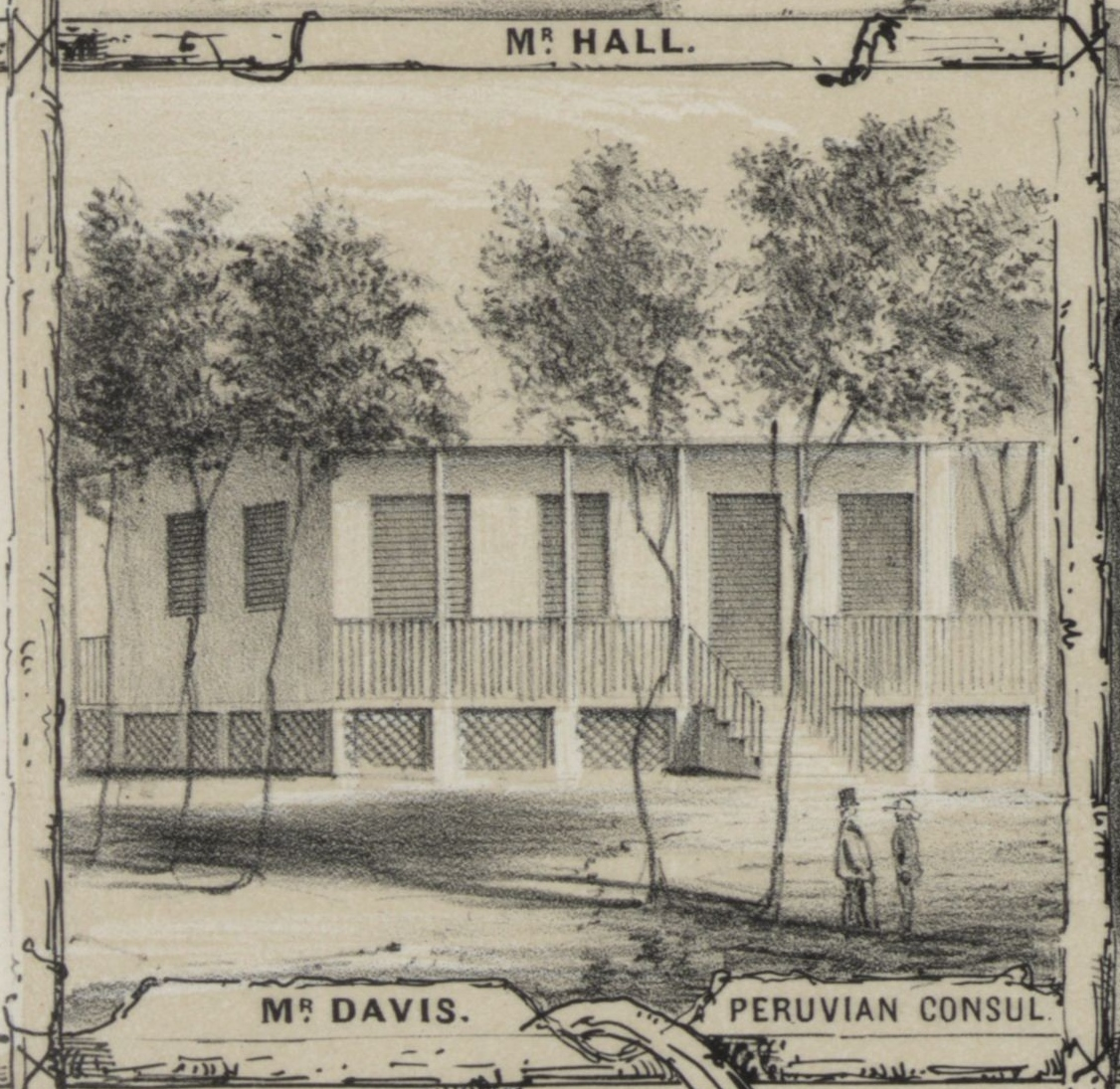 Residence of Robt. G. Davis, Consul of Peru. This was a cottage which stood in back between Dr. Wood's and Paki's, and was reached by a lane from Hotel street. Some years ago it became part of the Mc. Grew premises, the now "Arlington" property absorbing an adjoining piece and the lane. Warren Goodale (1897). "Honolulu in 1853". Papers of the Hawaiian Historical Society. Hawaiian Historical Society.